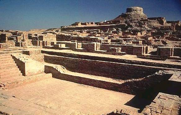 This work is licensed under a Creative Commons License. The photo is available at